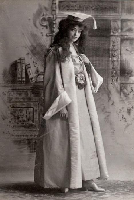 Louise Gunning c. 1900 - 1915